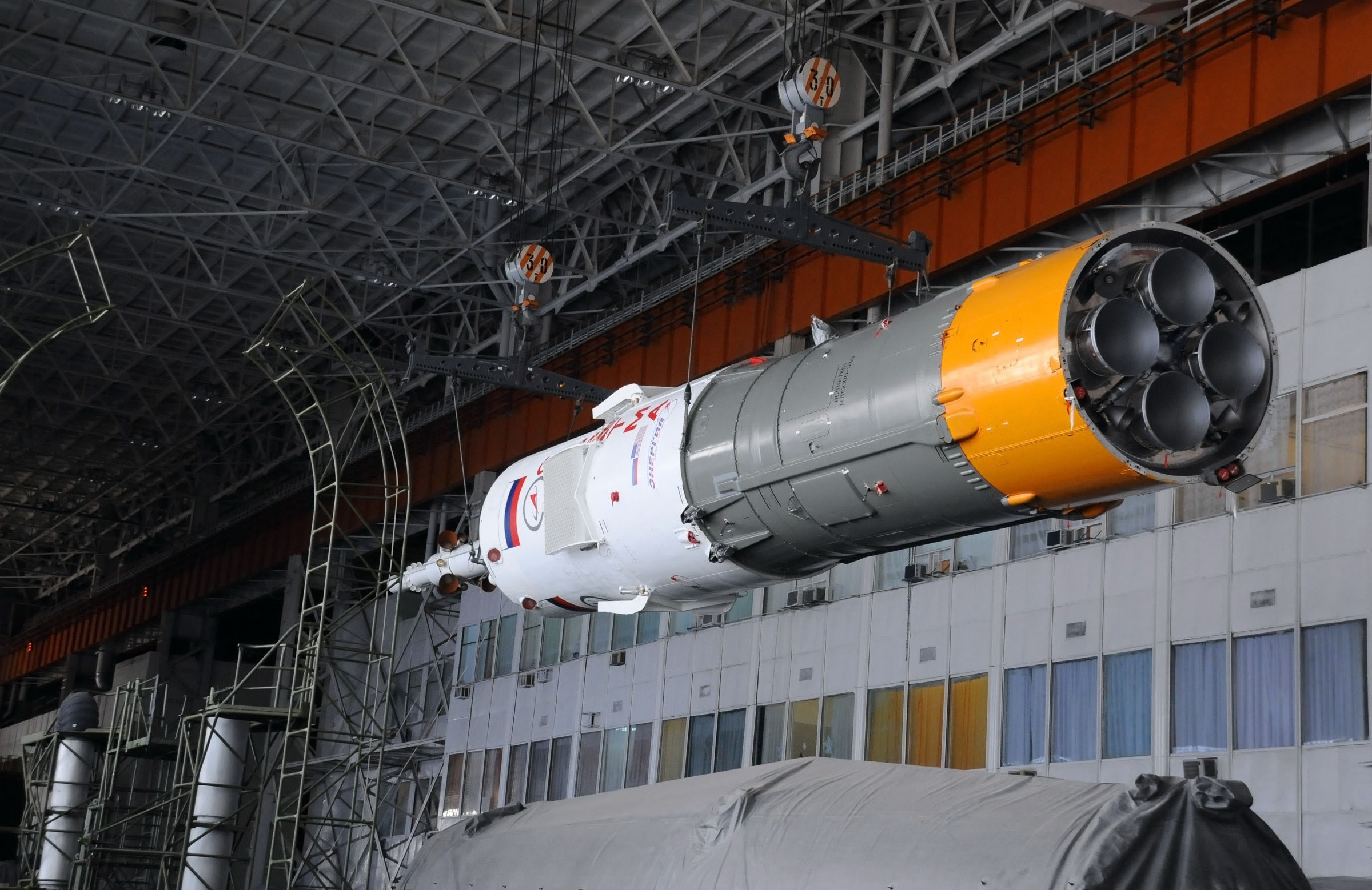 At the Integration Facility at the Baikonur Cosmodrome in Kazakhstan, the upper stage of the Soyuz booster rocket containing the Soyuz TMA-03M spacecraft is positioned for mating with the rest of the rocket Dec. 18, 2011. Preparations continue for launch from Baikonur to the International Space Station scheduled for Dec. 21 with Expedition 30 Flight Engineer Don Pettit of NASA, Soyuz Commander Oleg Kononenko and Flight Engineer Andre Kuipers of the European Space Agency.